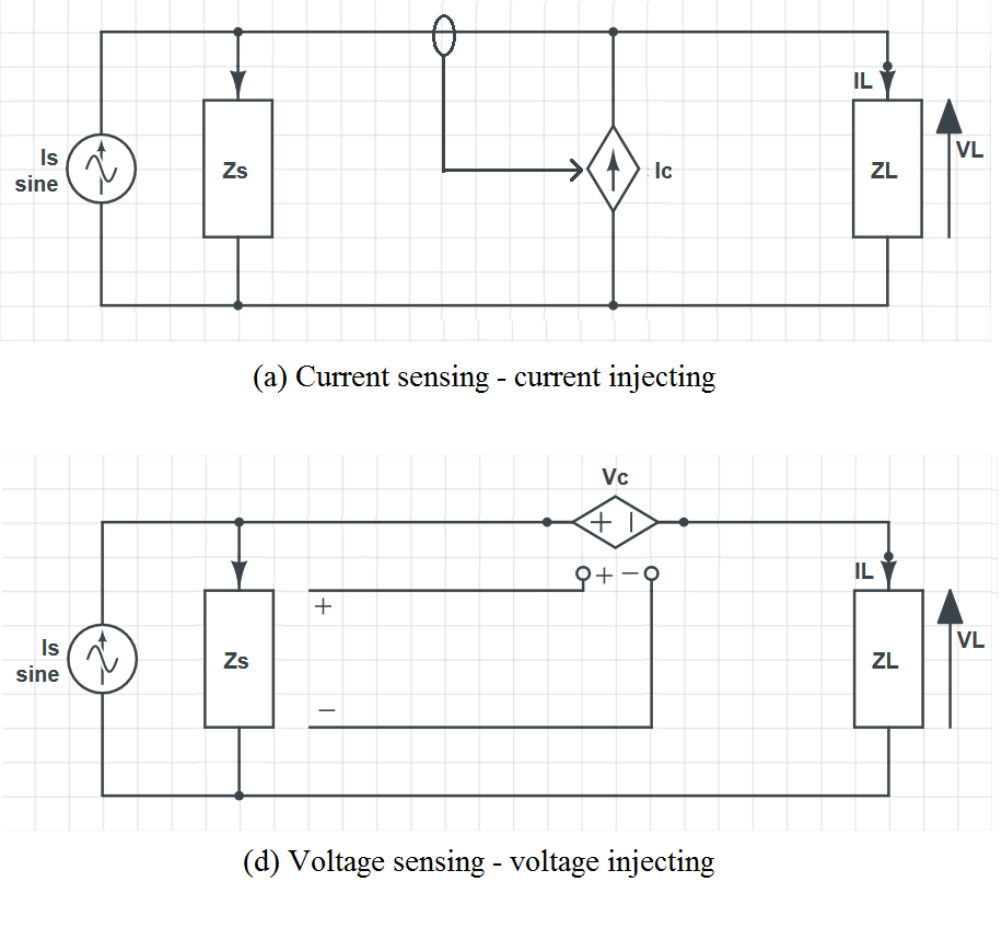 Feed forward configurations for active filtering